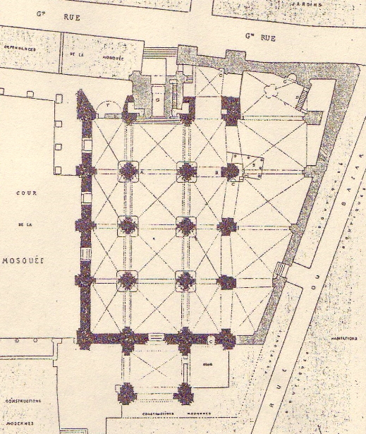 Great Mosque of Gaza